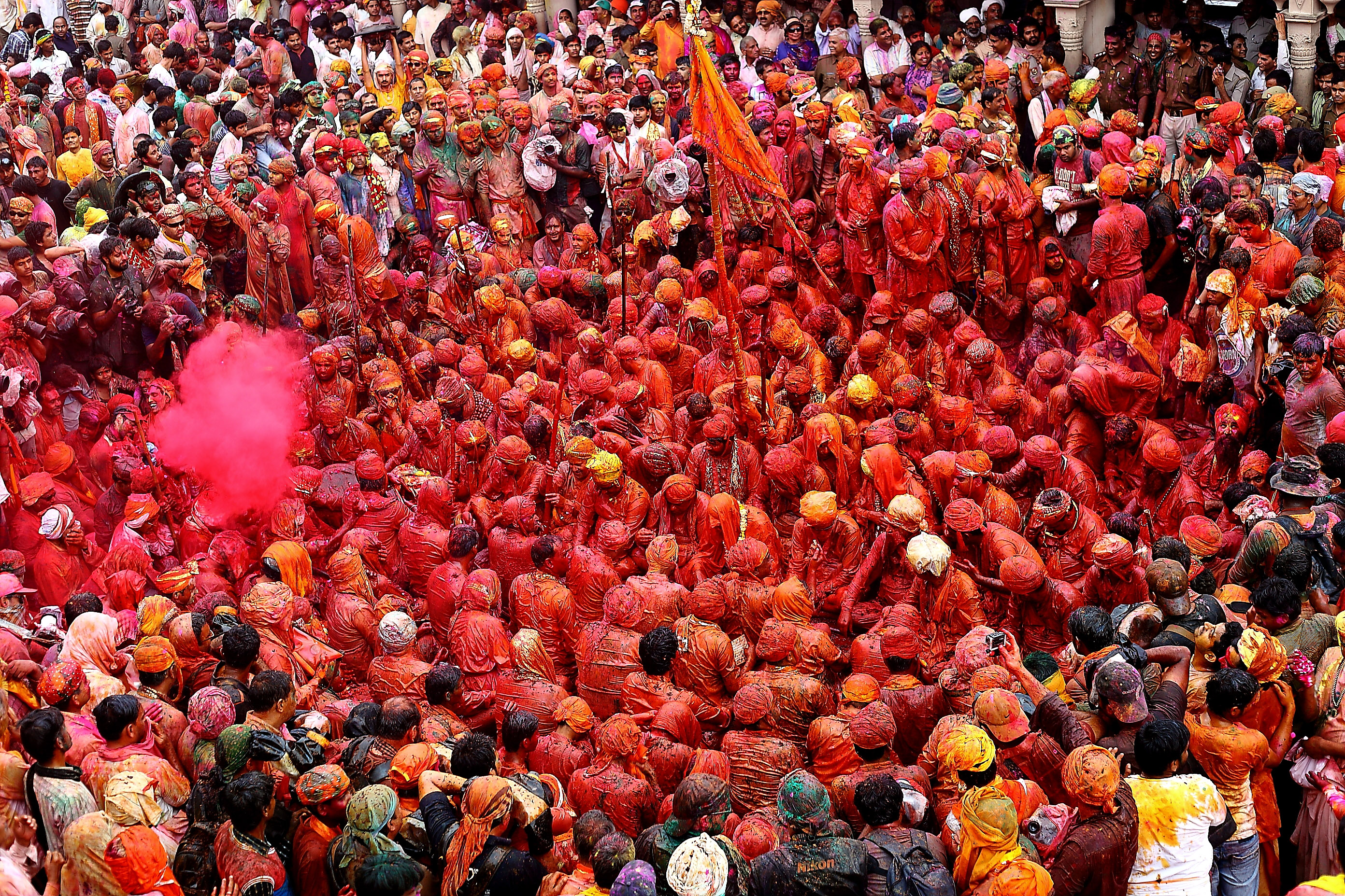 Colour drenched Gopis of Nandgaon